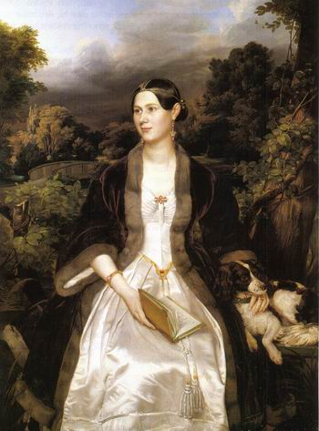 Princess Marie von Preußen in romantic garden scenery